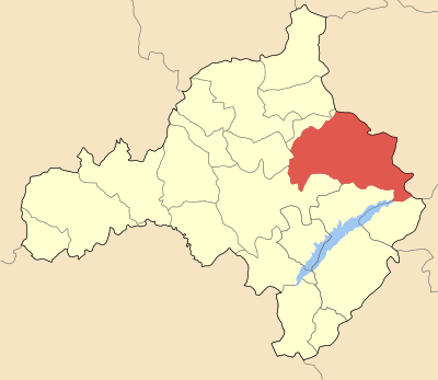 Locator map of Ellispondou municipality (Δήμος Ελλησπόντου) at Kozani perfecture, Greece.